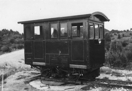 Riley railcar standing on turntable at Howlett's Plains